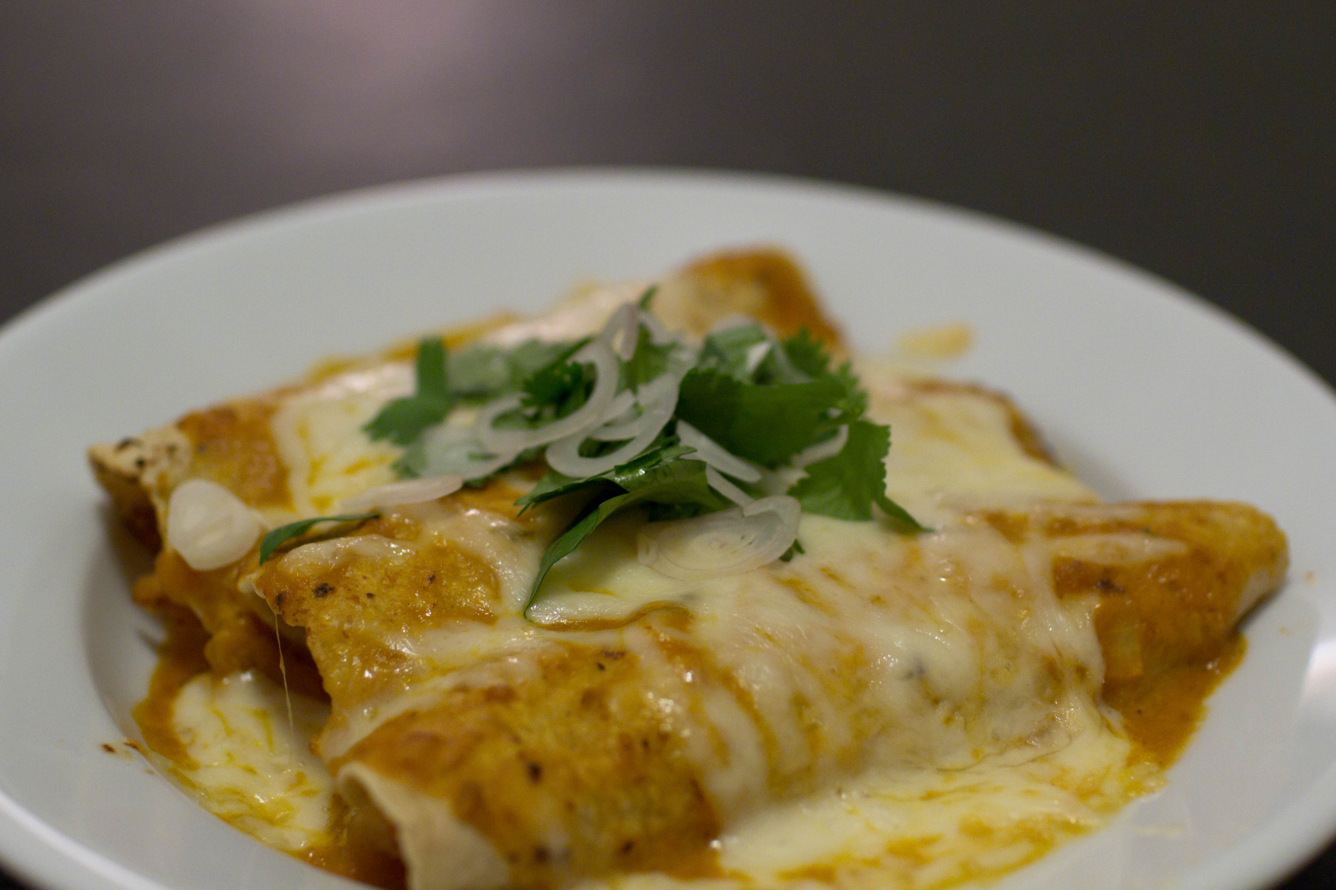 Enchiladas suizas (Swiss-style) are topped with a white, milk or cream-based sauce, such as béchamel. This appellation is derived from Swiss immigrants to Mexico who established dairies to produce cream and cheese.